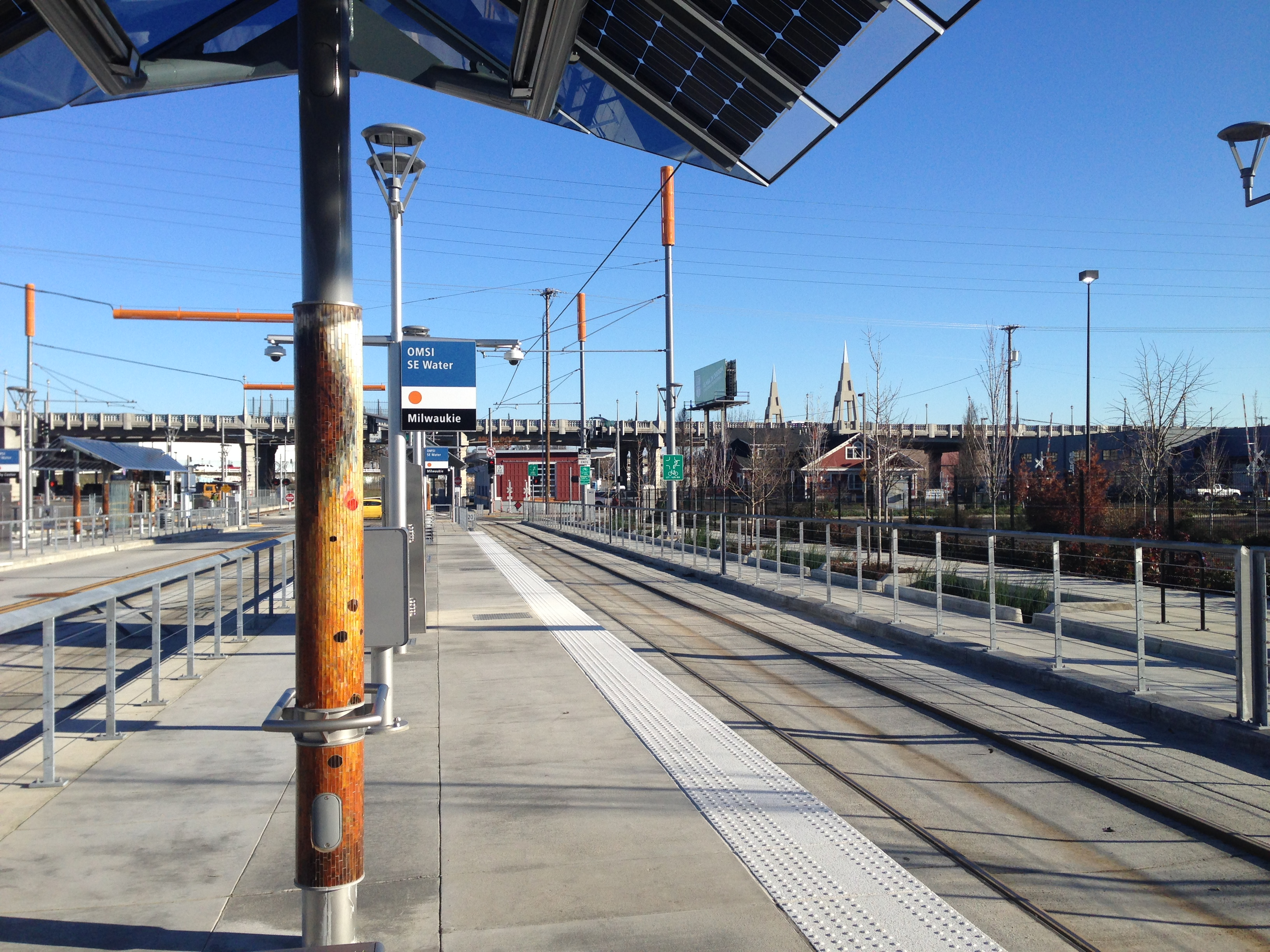 OMSI/SE Water MAX Station